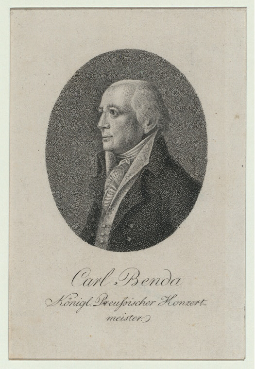 Karl Hermann Benda from Muller Collection in The New York Public Library for the Performing Arts / Music Division Stipple engraving